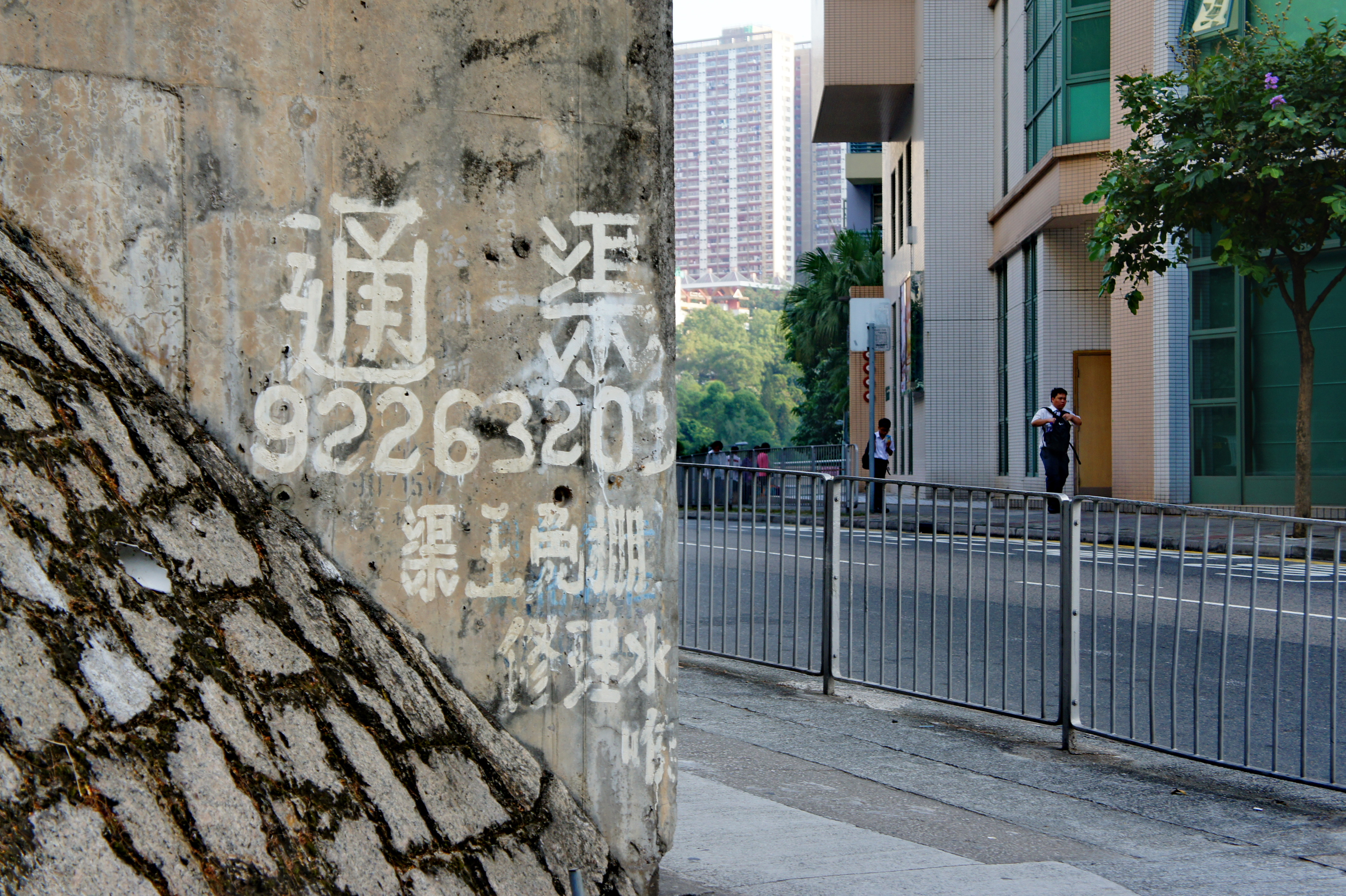 The Plumber King hand-scrawled advertisement at Choi Ha Road, Hong Kong.